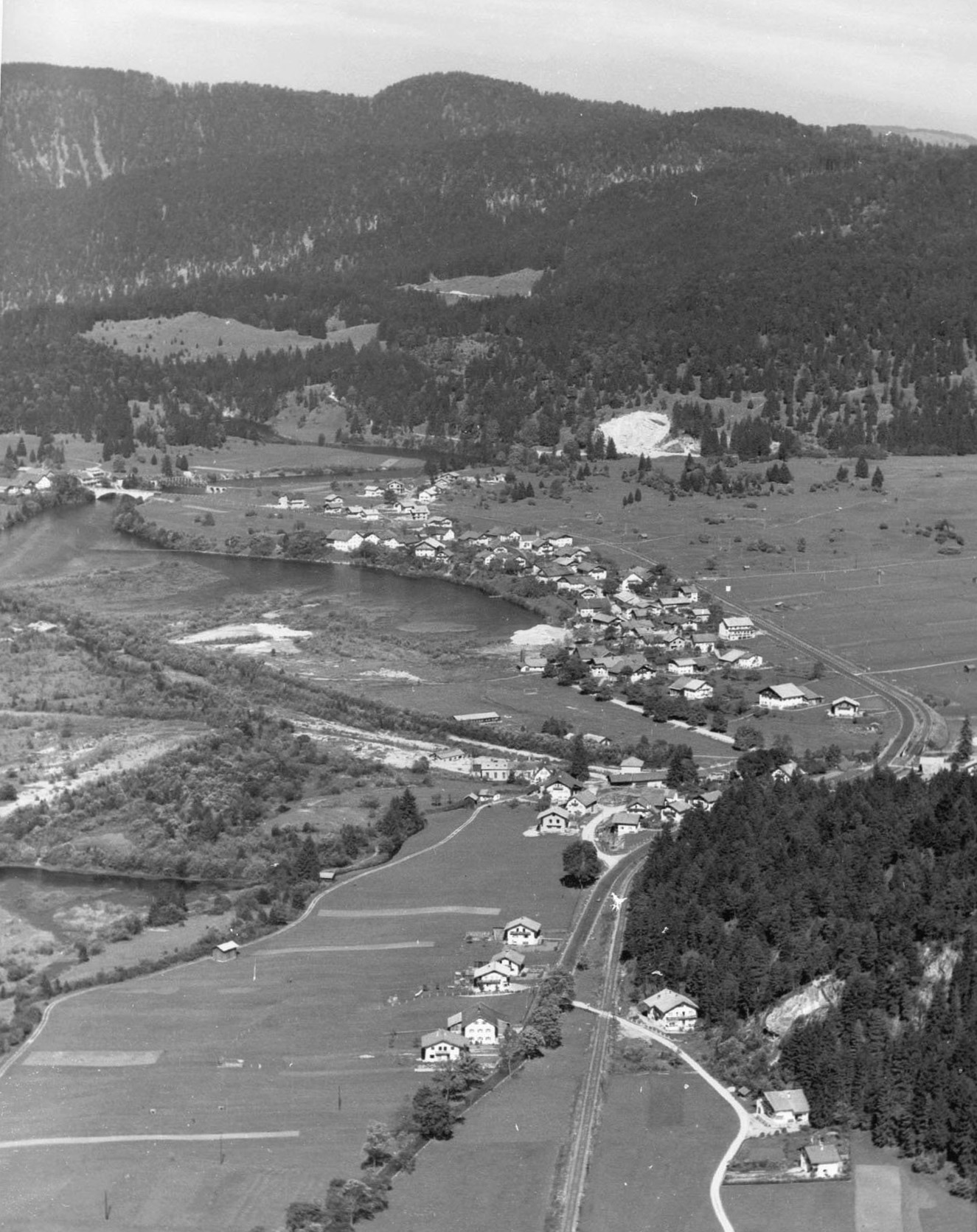 Pflach in Tyrol